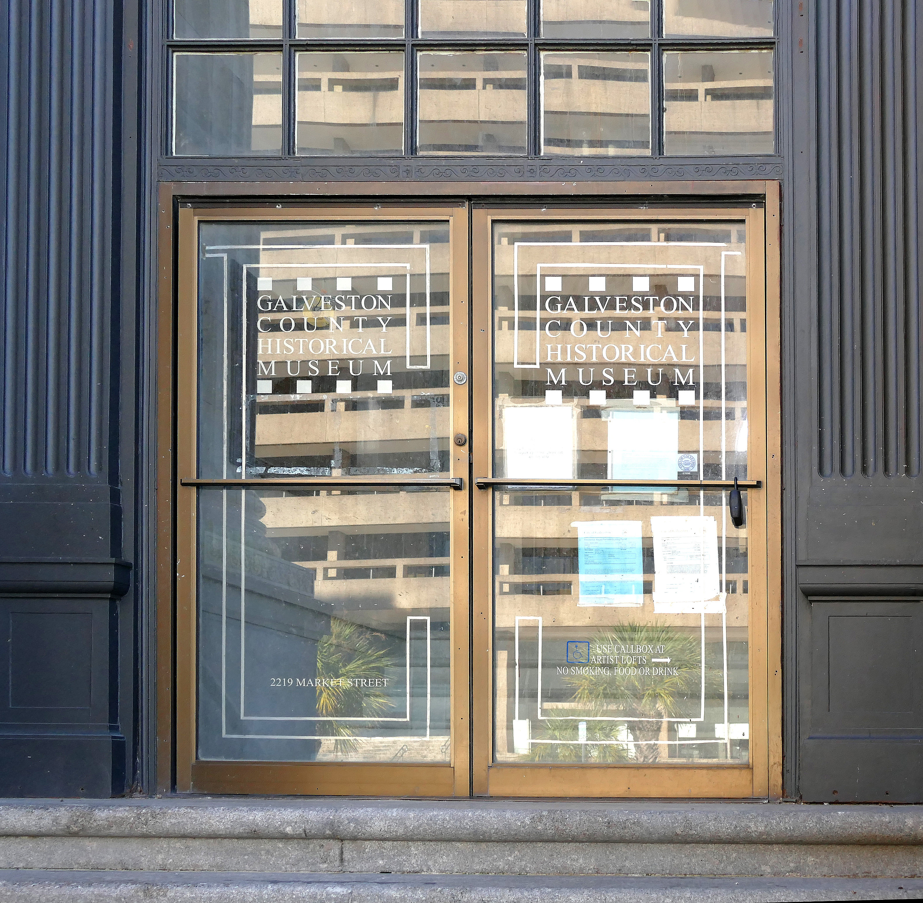 Organized in 1889 by W. L. Moody and Co., a private bank. City National Bank was later called the Moody National Bank.